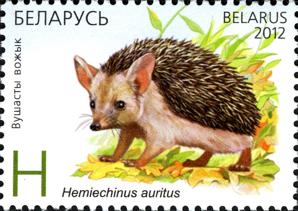 Stamp of Belarus